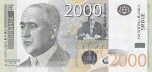 2000 Serbian dinar banknote, 2011 issue, front.